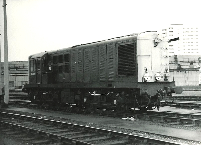 North British Type 1 (later Class 16) of the Pilot Scheme 800hp Bo-Bo No.D8403 in green livery with all-yellow fronmt end at Stratford MPD, 07/66. Scanned photograph taken with a Kowa SET camera.